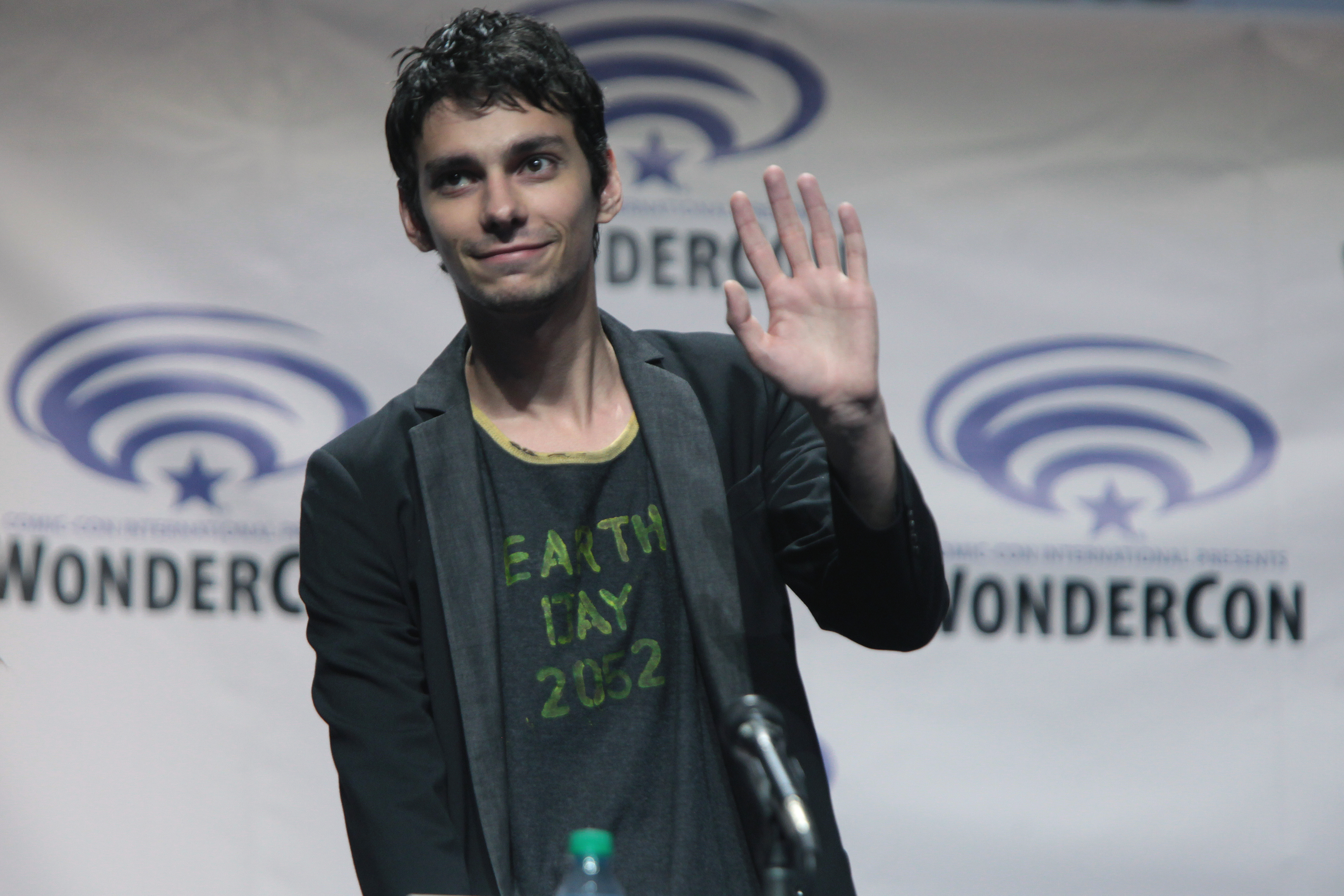 Devon Bostick speaking at the 2016 WonderCon, for "The 100", at the Los Angeles Convention Center in Los Angeles, California.